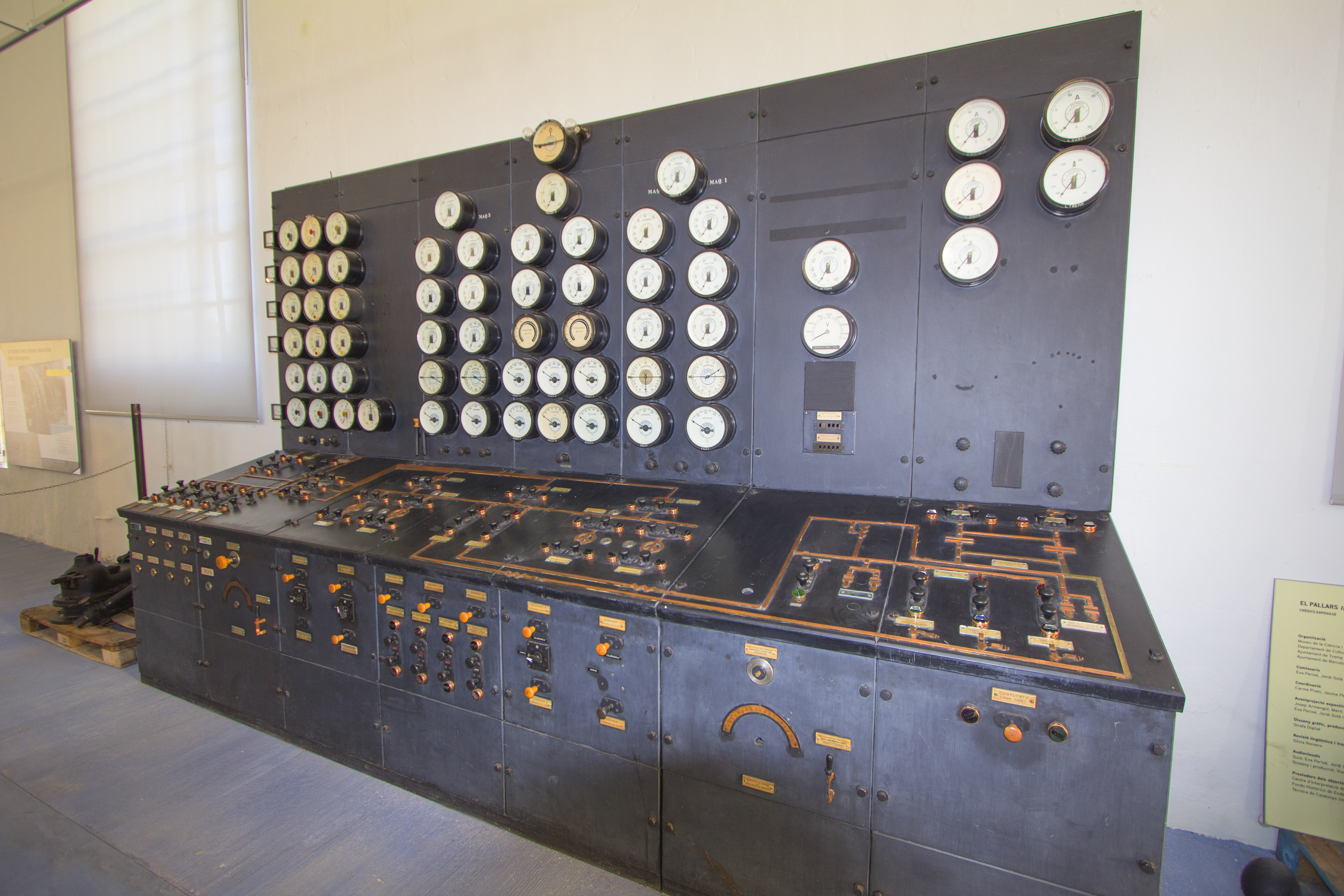 Former control panel of Talarn hydropower power plant (Catalan Pyrenees)